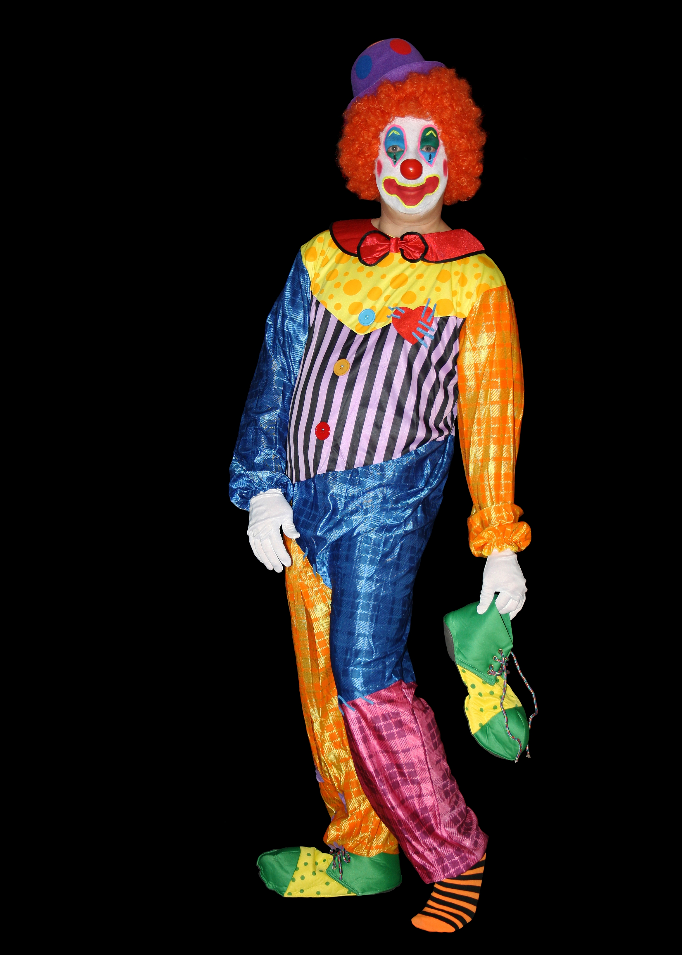 Clown costume